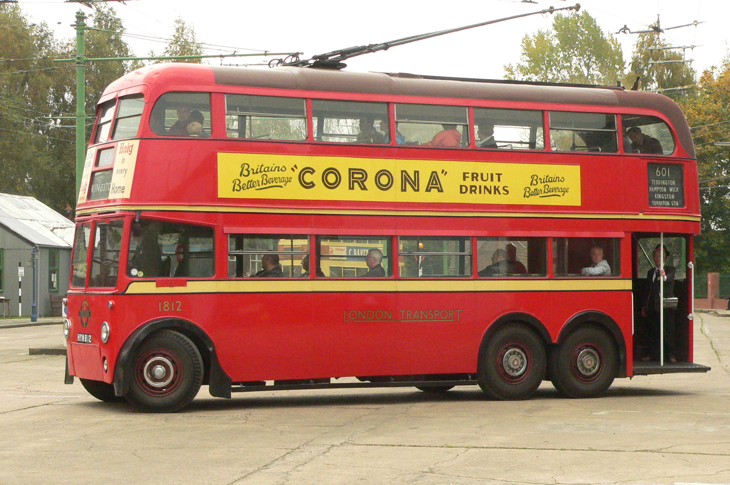 Preserved London trolleybus, Sandtoft. London Transport 1812, Q1-class, was built in 1948 by British United Traction (BUT).